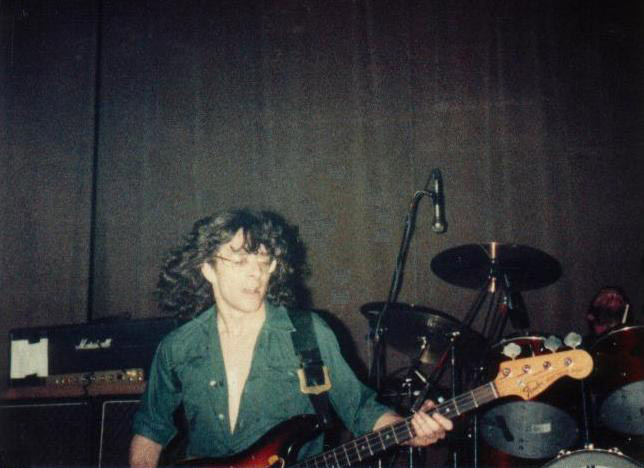 Burke Shelley, of Budgie, performing in 1981. Steve Williams can be seen in the background on drums.